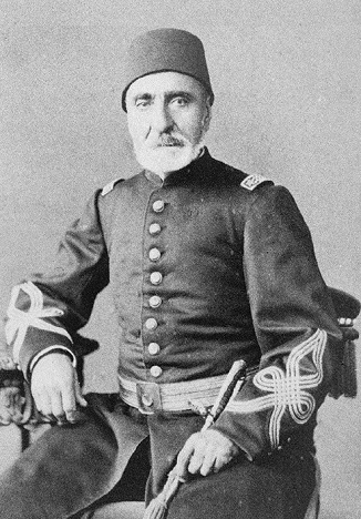 Necip Pasha, Ottoman composer. Cropped image (1880s)